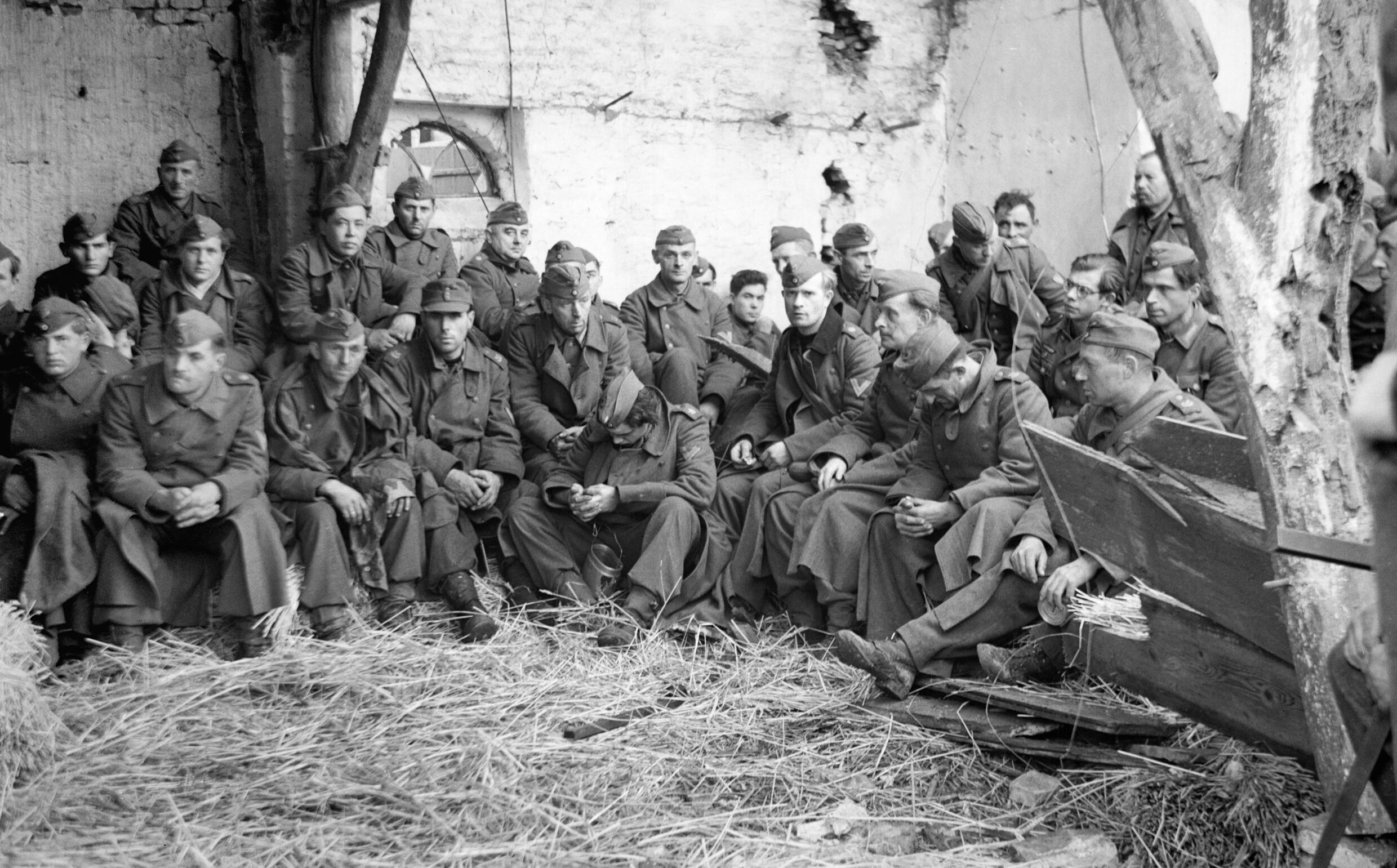 German POWs captured during the Allied assault on Walcheren Island in Holland, November 1944. The occupation of Walcheren Island is going fast. Flushing is in the hands of the British and troops fanning out to the West are close to the Marine Commandos coming downfrom the Weskapelle beachhead (where these pictures were taken). This image shows German prisoners that were taken in the fighting being housed in a barn on the way to the Prisoner of War cages.